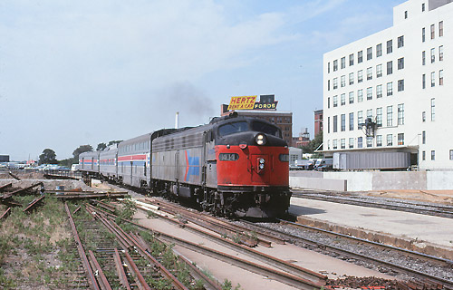 The Dallas section of the Lone Star at Dallas Union Station in July 1977